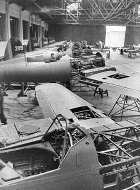 IAR-80 manufacturing